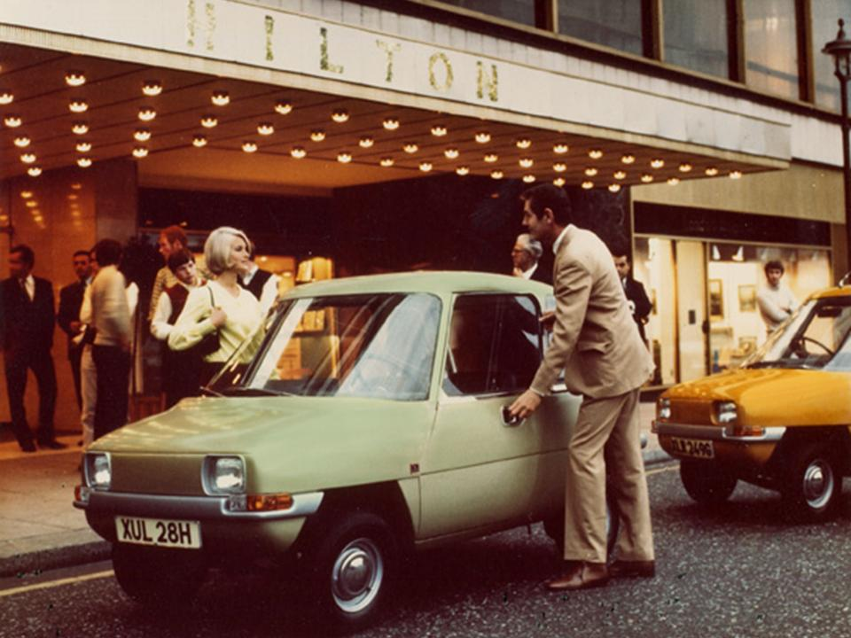 Evening outing to the London Hilton with an earlier version of the E8000ECC From the Endfield Automotive, Electricity Council and Constantine Adraktas archives.